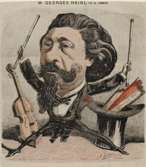 French dirigent François George-Hainl (1807–1873)